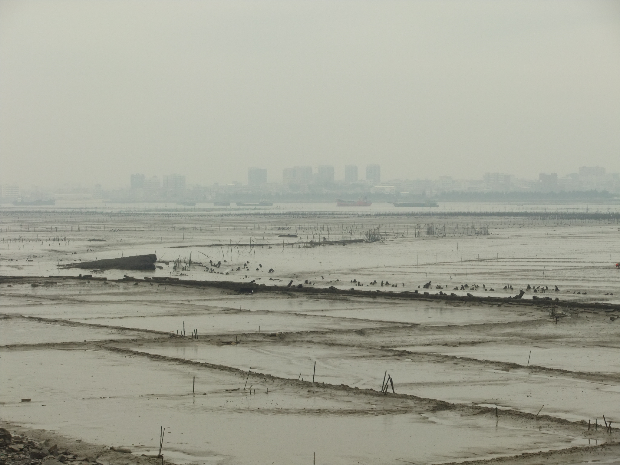 Anhai Bay is the estuary of the Shijing River. It separates Shijing Town (west side) from Dongshi town (east side). This is a tidal estuary; much of its bottom is exposed in low tide, and is used for something that looks like a form of oyster cultivation. These photos were taken from the west side of the bay, between Shijing and Shuitou; Dongshi Town's skyline can be seen in the background of some photos.